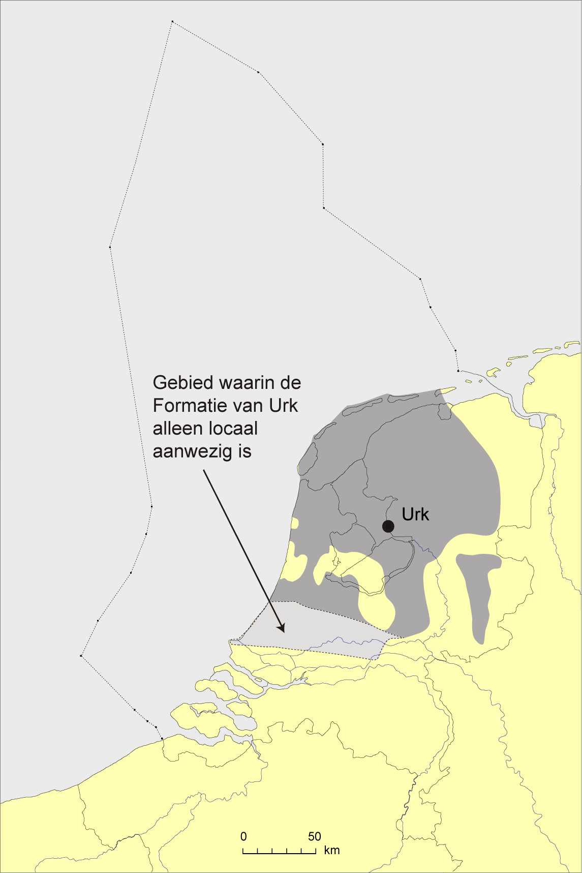 Distribution of the Pleistocene lithostratigraphic unit "Urk Formatie" in the Netherlands